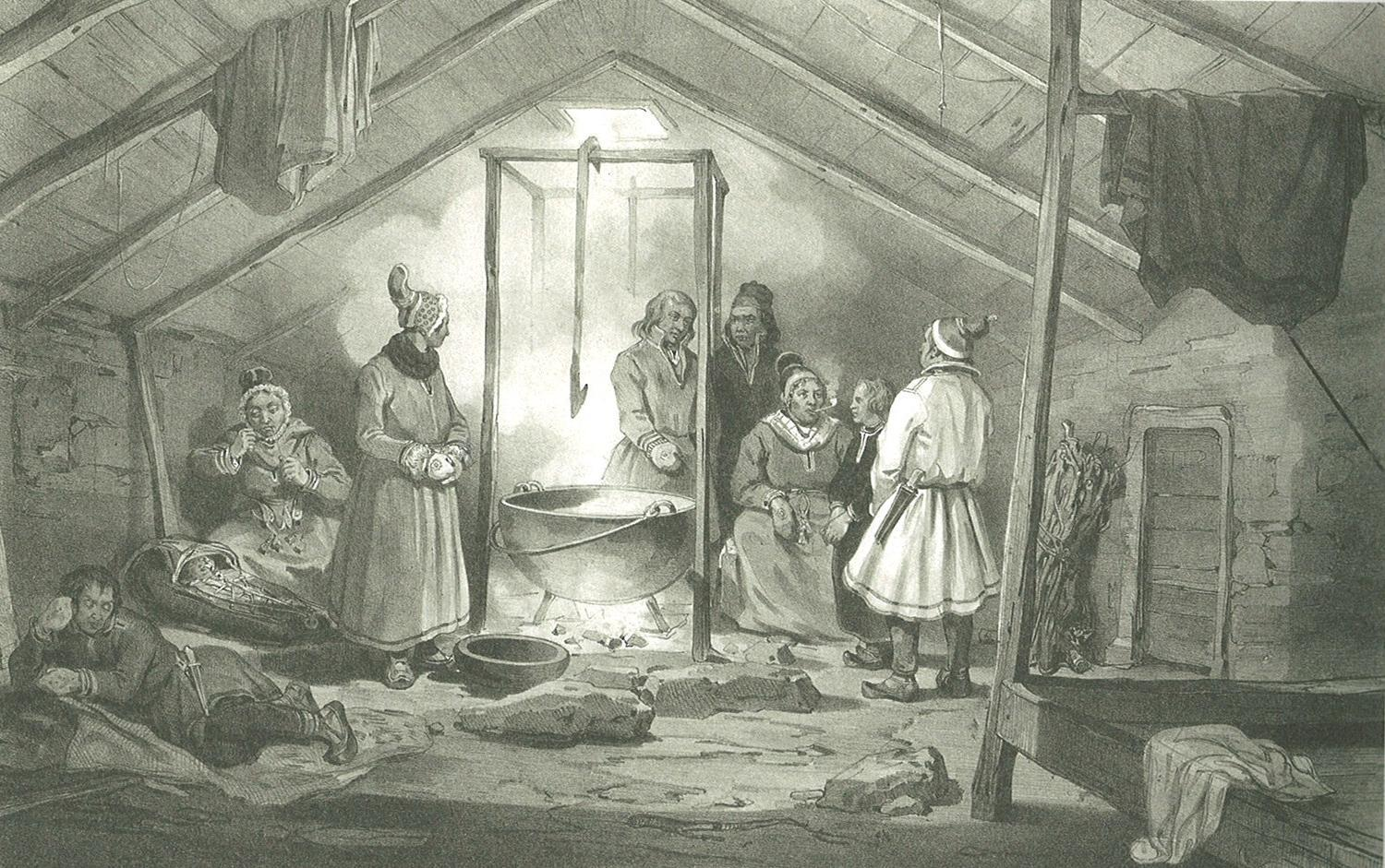 Coast (?) Sámi on Sievju/Seiland 1838